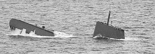 I scanned this image in from an official U.S. Navy publicity photo of Odax surfacing in the Norwegian Sea after a successful NATO exercise in 1970. I received the photo with no strings attached since I was a crew member of the Odax at the time.